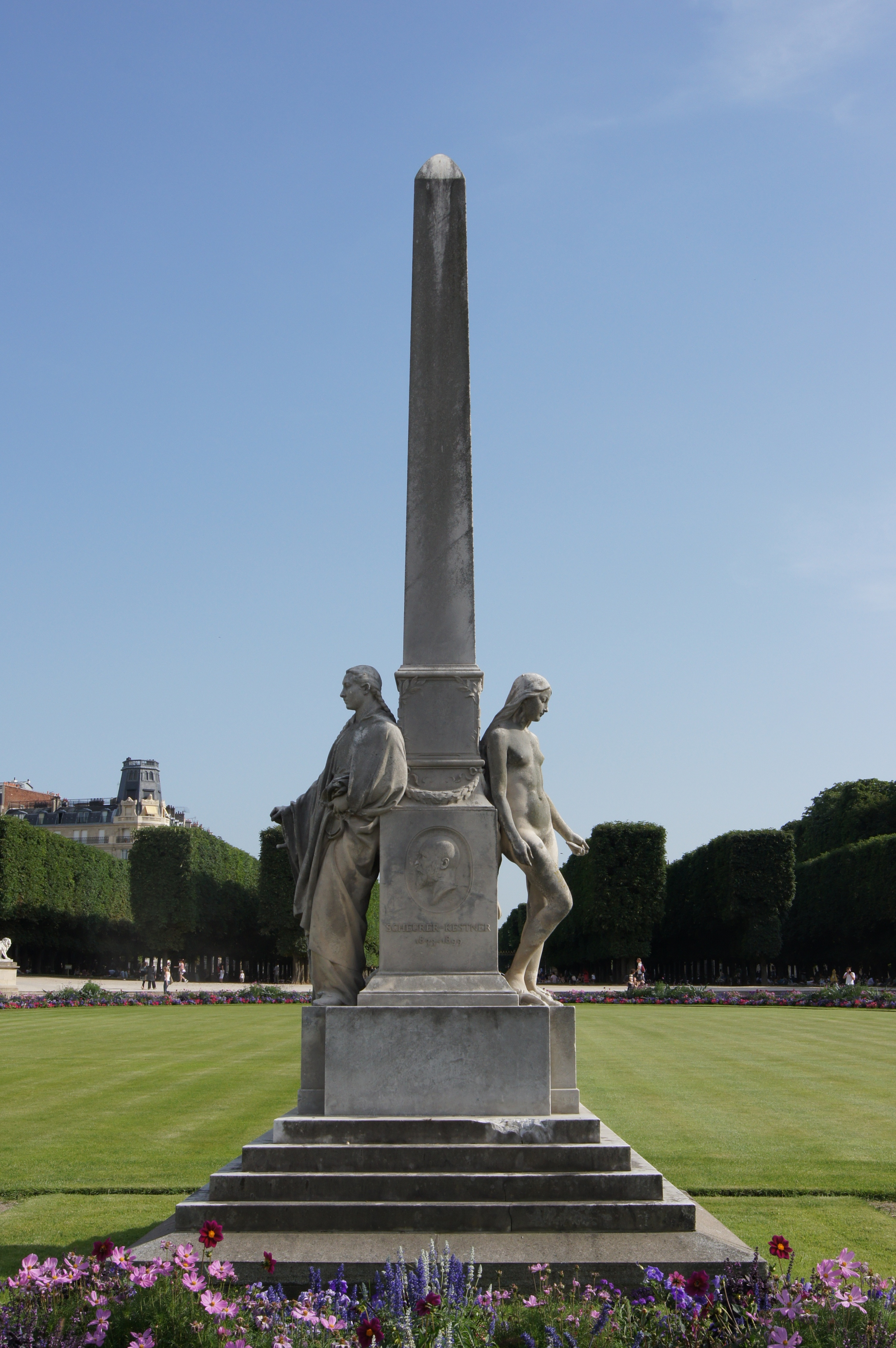 Monument to Auguste Scheurer-Kestner (1833-1899). Senator of the occupied Alsace, Vice-President of the french Senate during the Dreyfus Affair. He was the first politician to trust capt. Alfred Dreyfus innocent, and had a great action for a new trial of the officer. 1908, by Aimé-Jules Dalou.